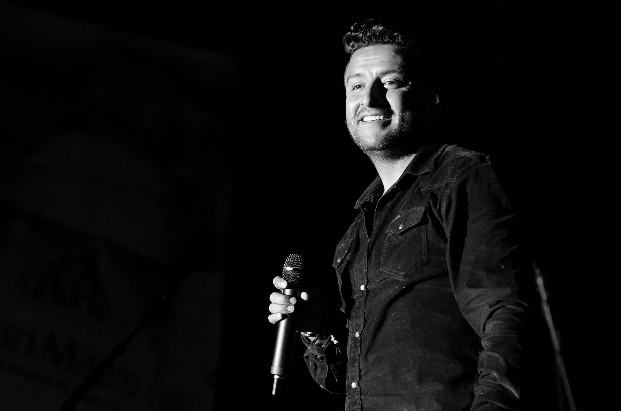 Alex Campos, 2016